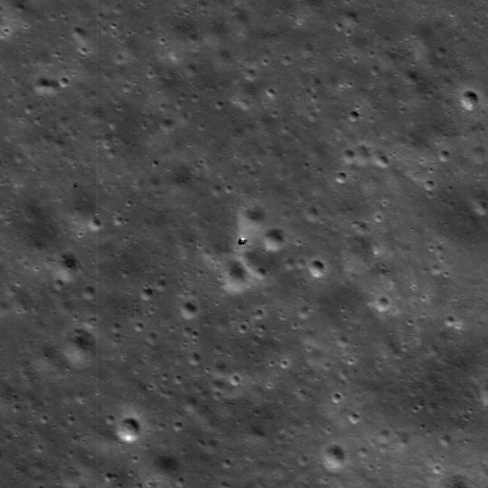 Statio Tianhe, the landing site of the Chinese Chang'e 4 lander and rover, within Von Kármán crater on the far side of the moon. The lander is at center, and the rover is a small black dot to the northwest. This is approximately 7 months after landing on 3 January 2019. The image is approximately 400 m wide.